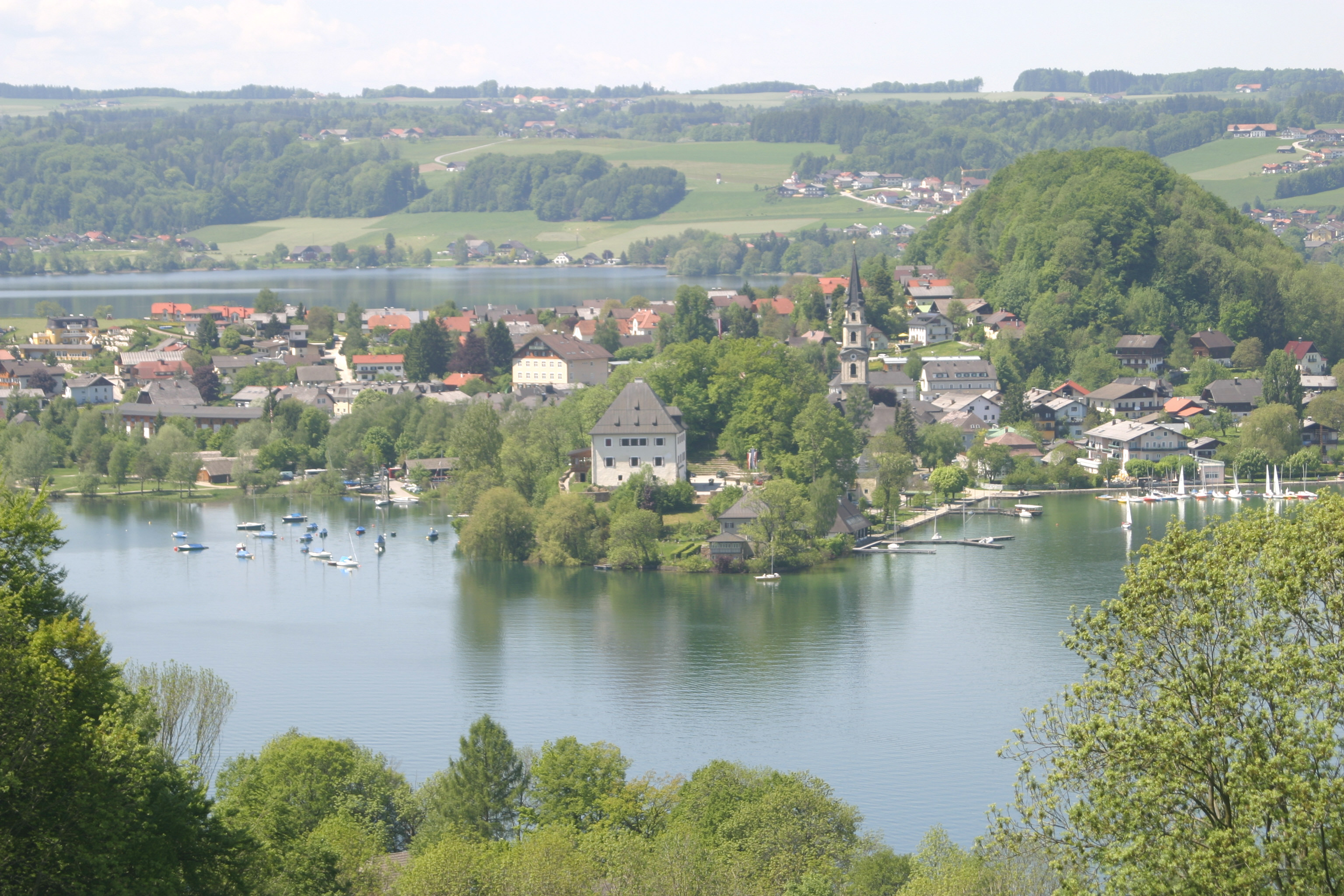 Municipality of Mattsee in Austria